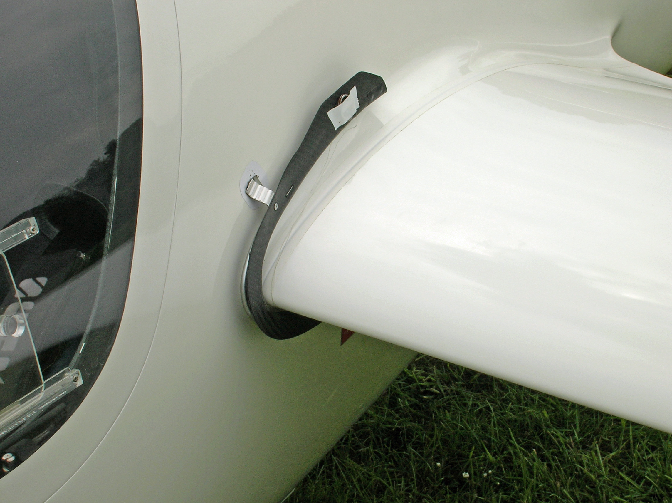 Bug wiper (device for in-flight removal of dead insects) on a Ventus 2cxM (registration D-KCXM), photo was taken 2010 at Oeventrop Airfield, Germany